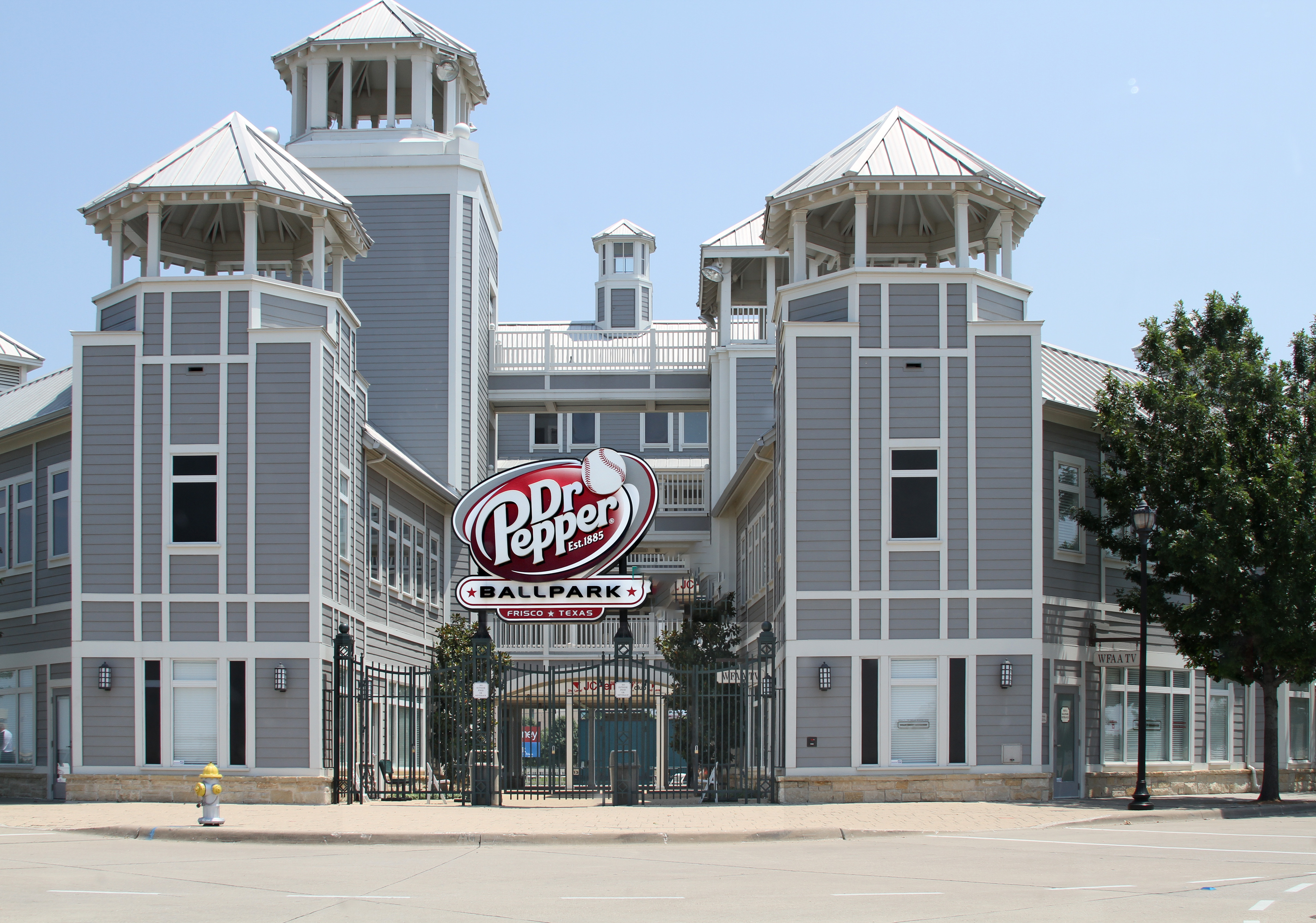 The front entrance of Dr. Pepper Ball park in Frisco, Tx.